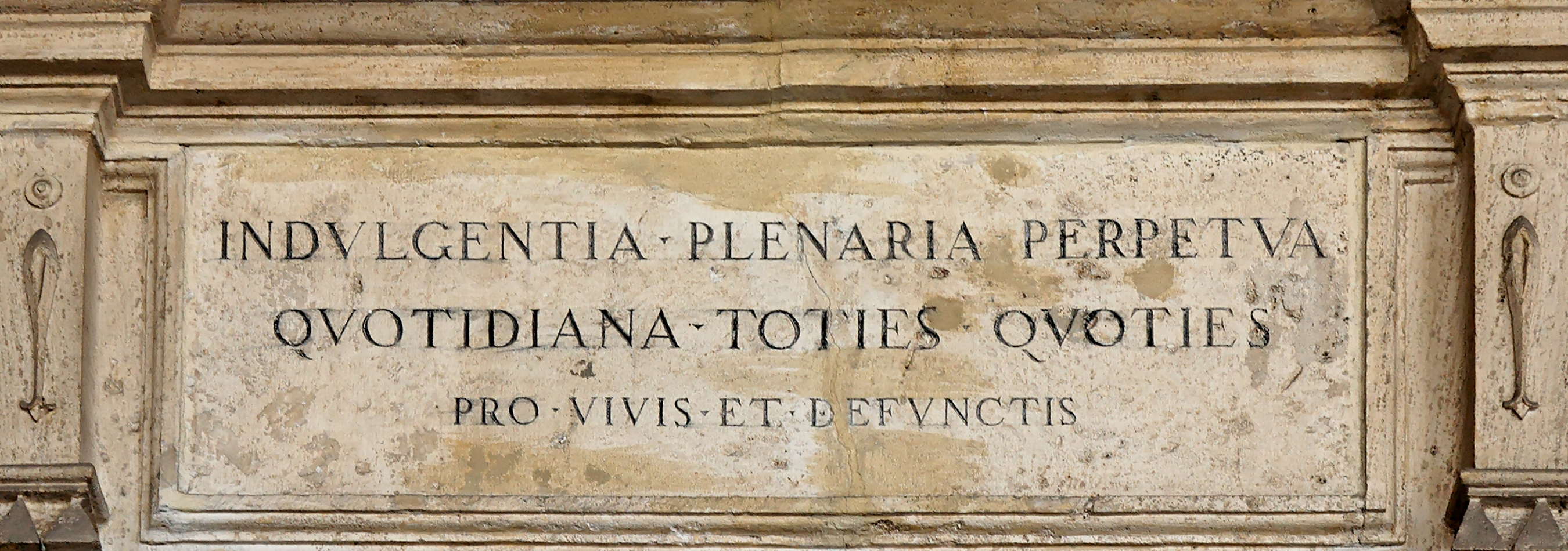 Plenary indulgence. Inscription on the left transept of the Basilica of St. John Lateran (Rome).